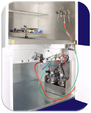 Spray booth designed for application of conformal coatings, lacquers and RFI shielding paints